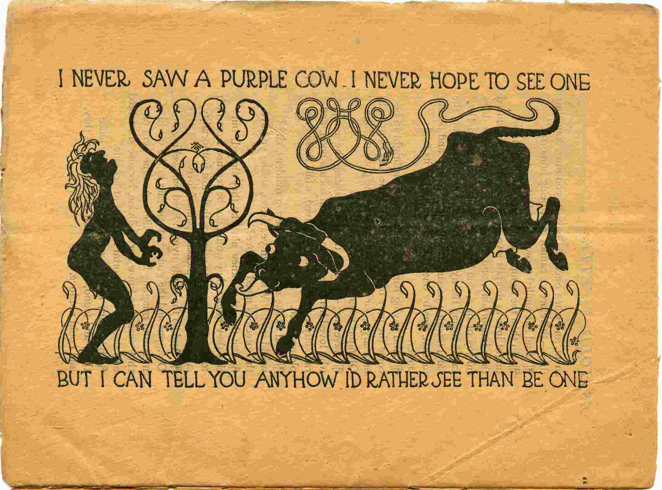 This image is a single page scan from my own copy of Burgess's The Lark, published in 1895. The page contains a Gelett Burgess' poem